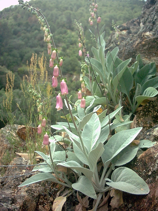 A work release by Javier martin Francisco Javier Martin Lopez, an endemic plant Digitalis purpurea subsp. mariana, in Sierra Madrona, Ciudad Real, Spain 2006, May 25. A free donation to Wikipedia.